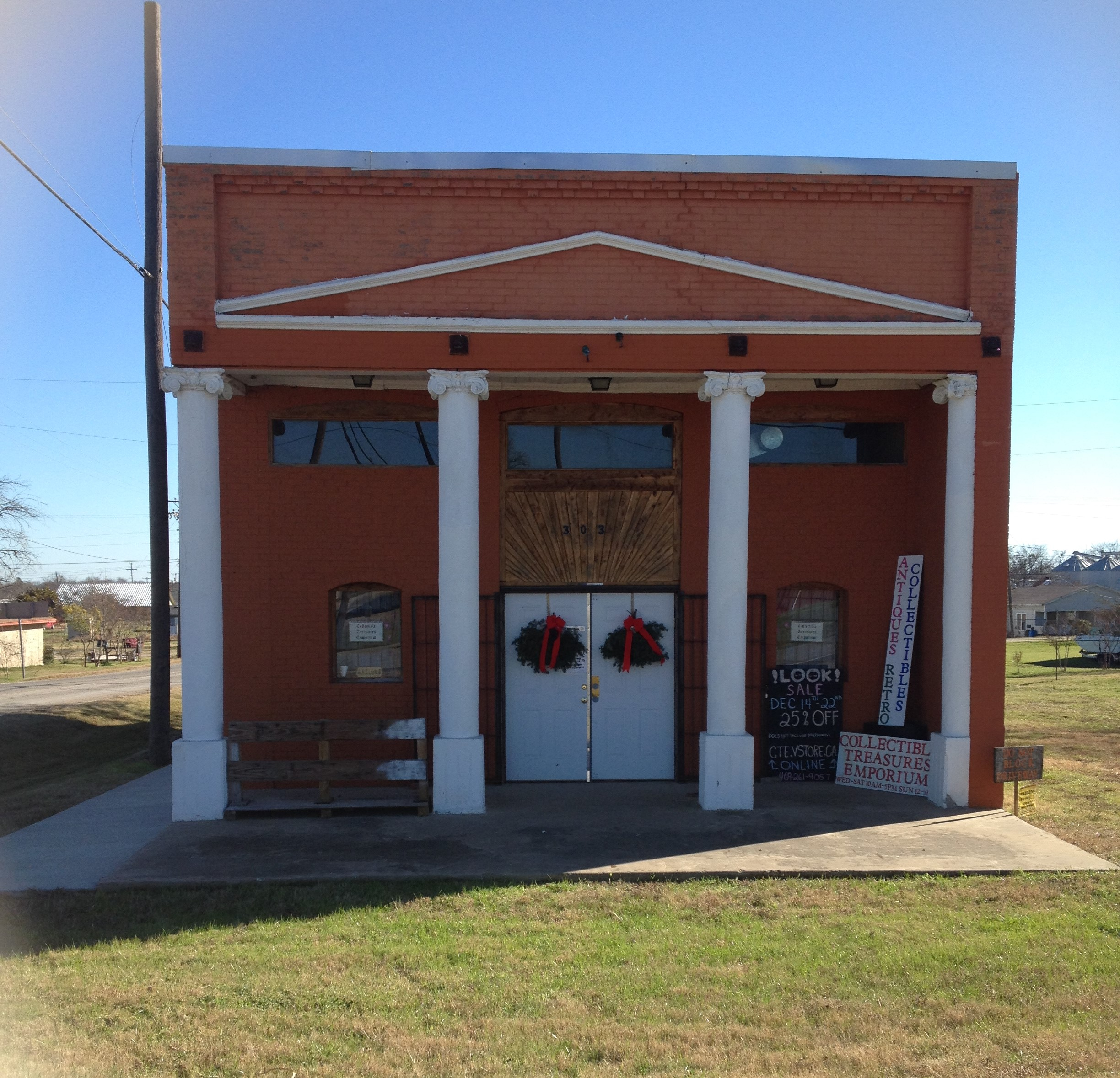 The First National Bank of Bardwell charter number 10678 of Bardwell, Texas in Ellis county was granted a charter in 1915.